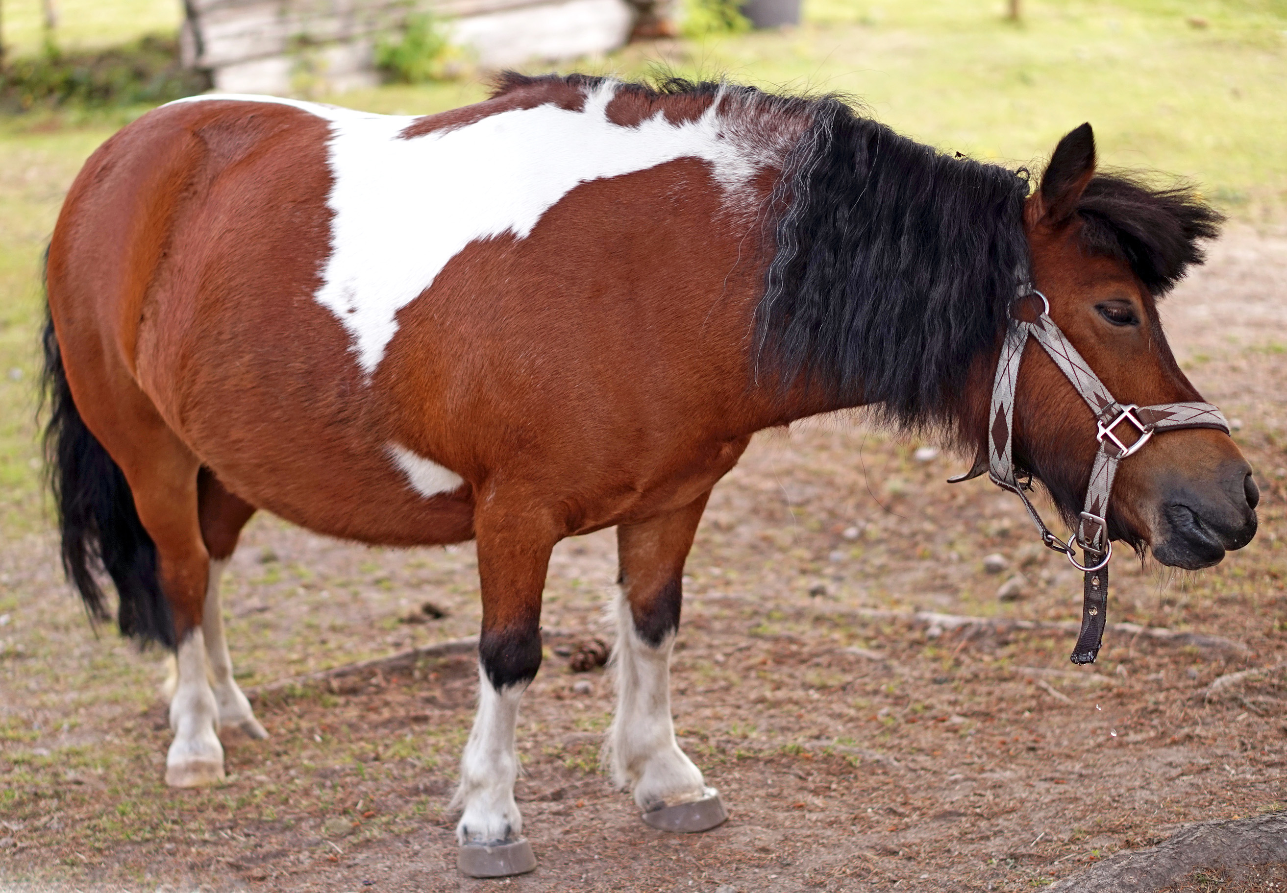 Shetland pony in Ysitien Lemmikki. Leppälahti, Jyväskylä.